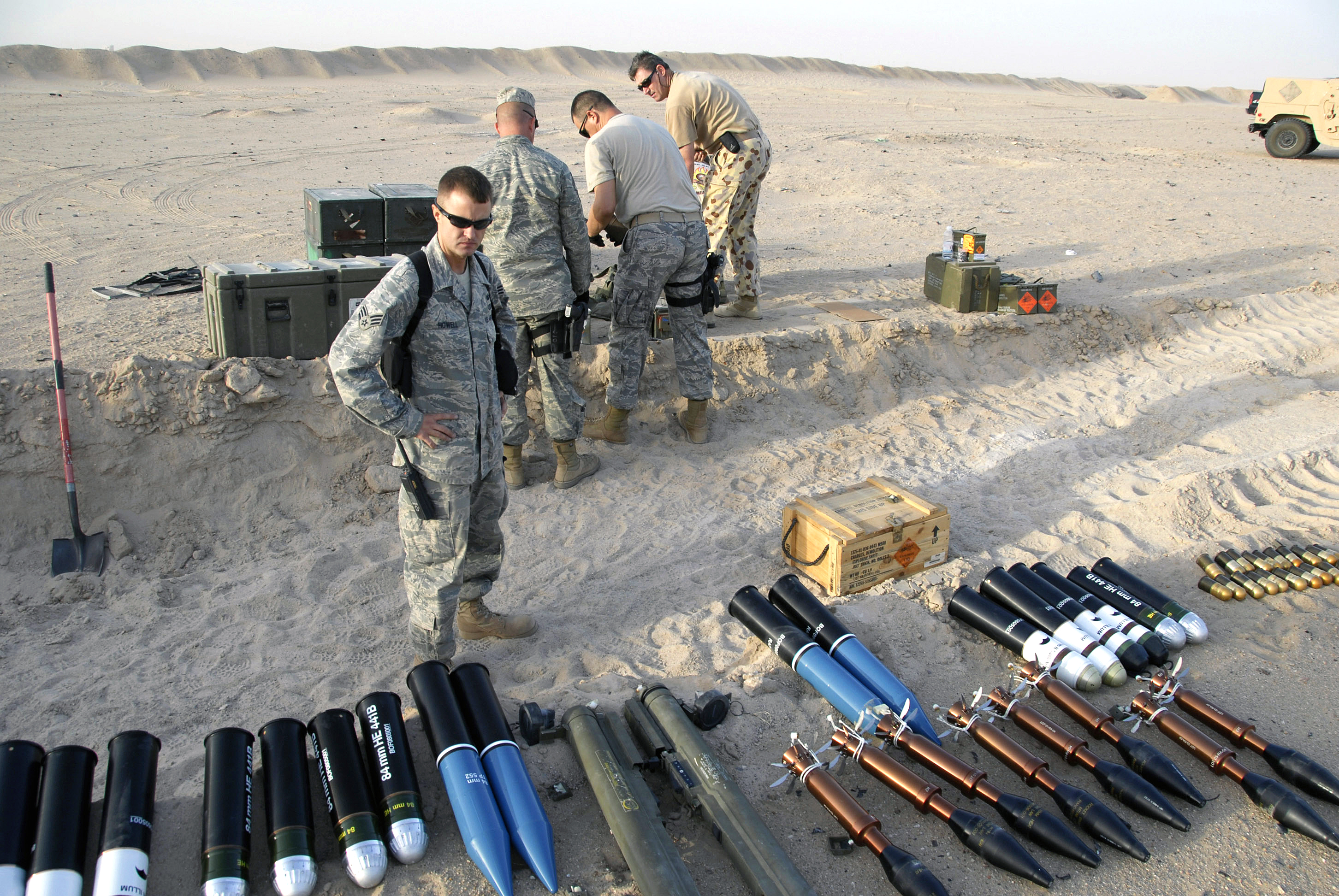 U.S. Air Force Senior Airman Charles Howell, front, looks over the munitions to be destroyed while other airmen and Australian army ammunition technicians prepare light anti-armor weapon rockets for disposal before a controlled detonation at an explosive ordnance disposal range in Southwest Asia, June 20, 2008.